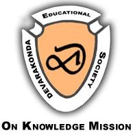 LOGO-DVR College of Engineering and Technology